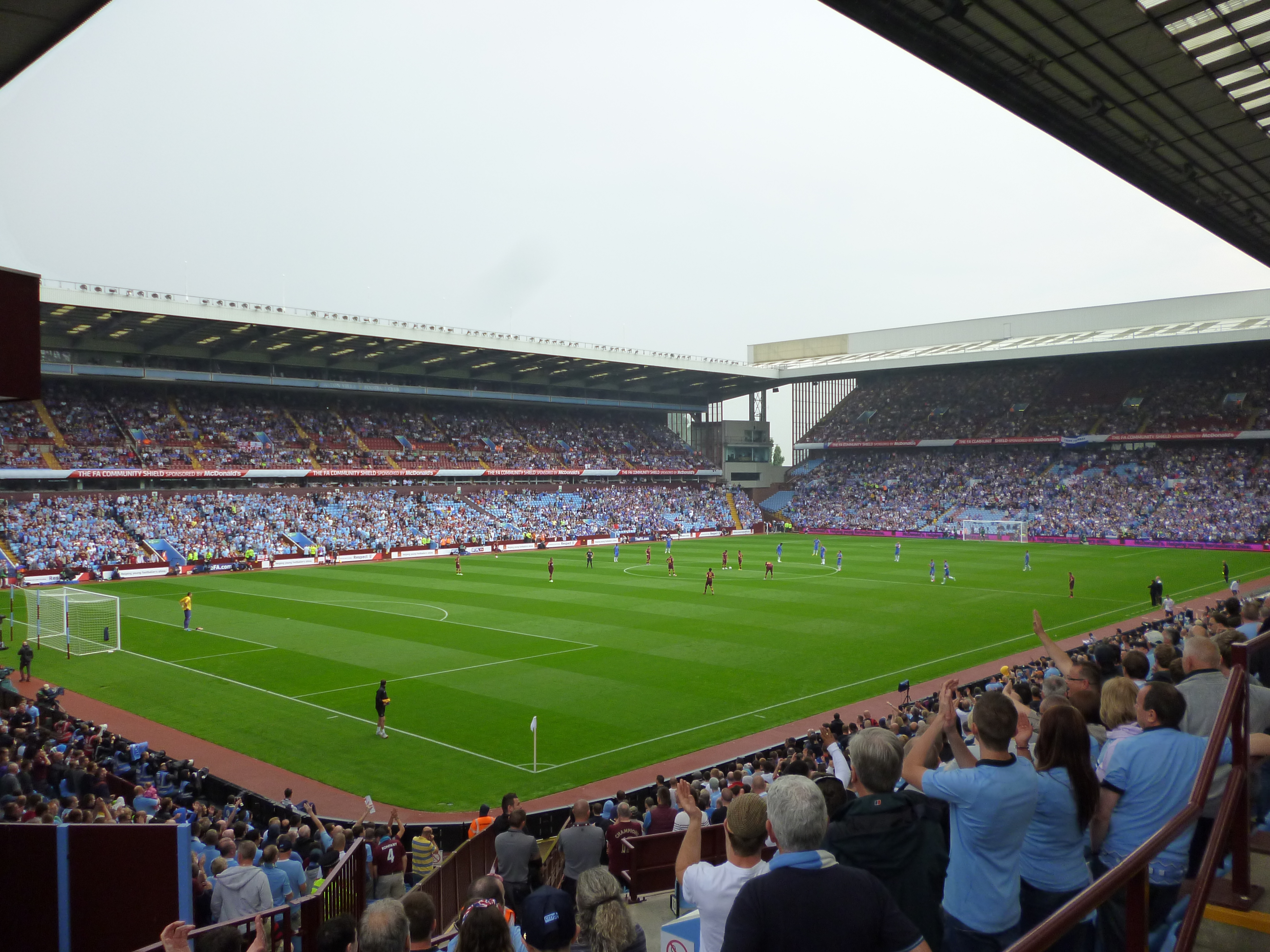 The kick-off of the 2012 FA Community Shield between Manchester City (maroon) and Chelsea (blue) at Villa Park, Birmingham.